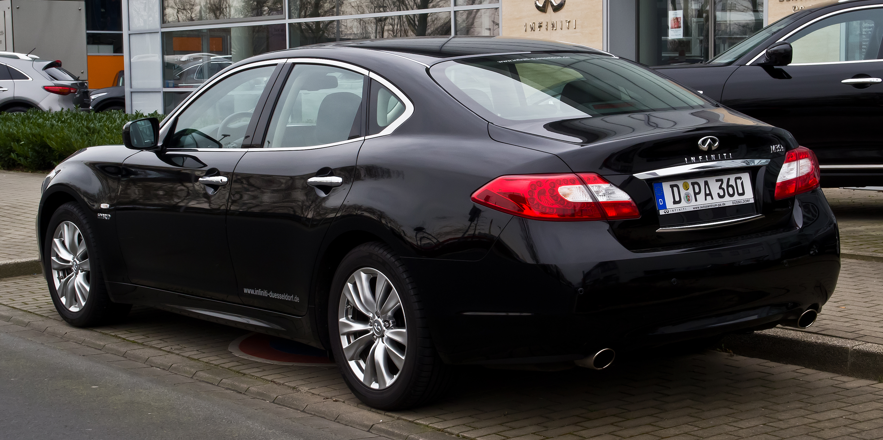 Infiniti M35h GT Premium (Y51)